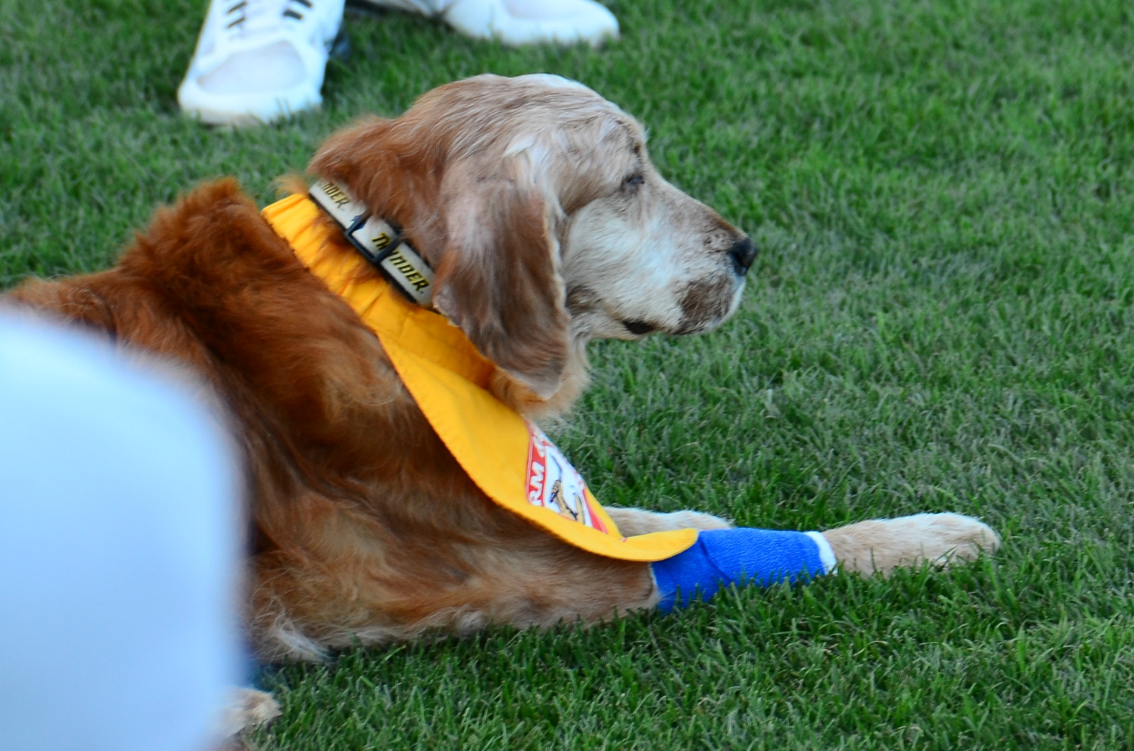 Chase "That Golden Thunder", the long-time bat dog for the Trenton Thunder, lays on the field during his retirement ceremony on July 5, 2013